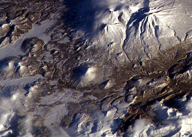 Small Golaya volcano at the center. To the north is the bigger Asacha volcano.